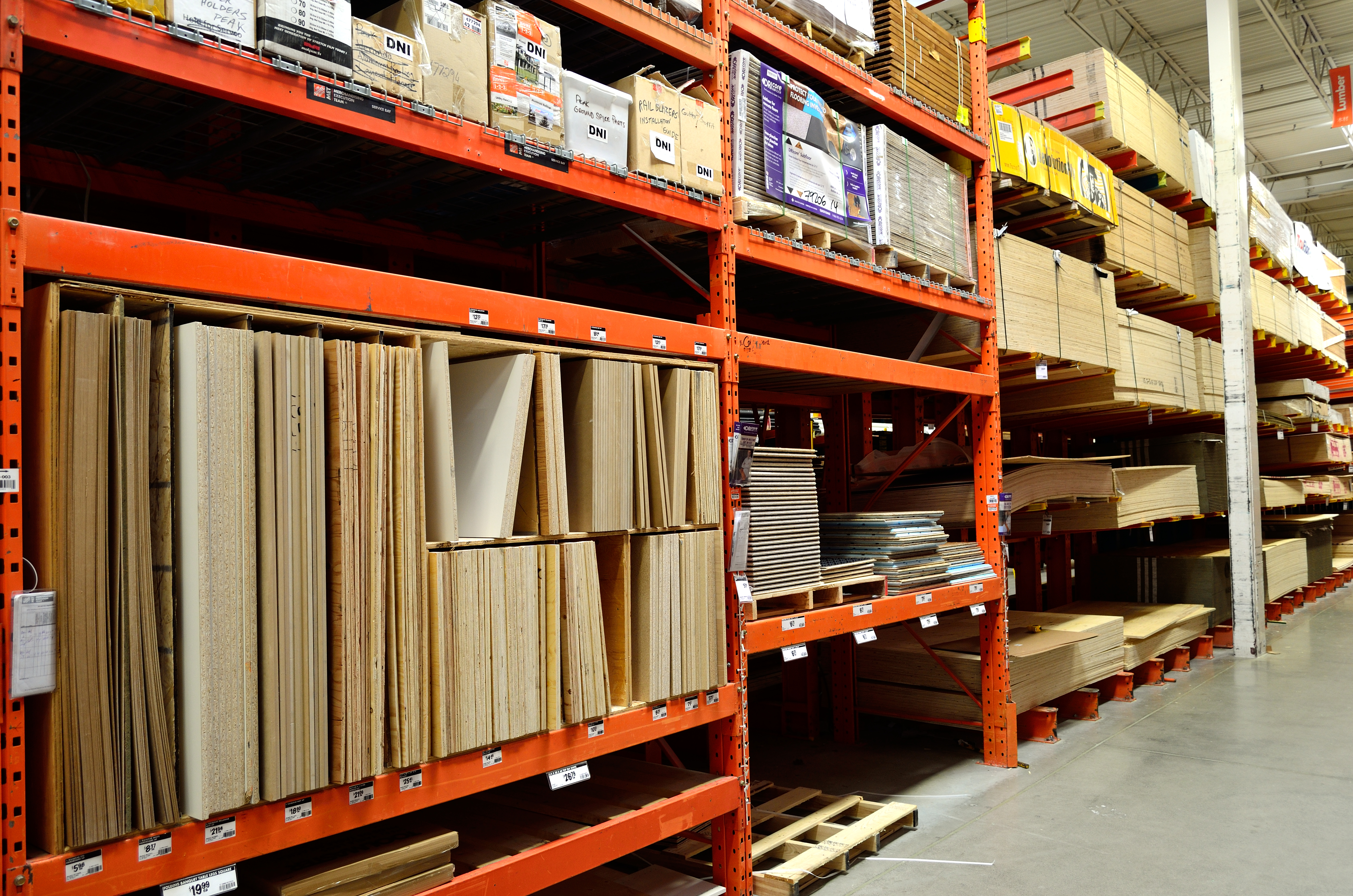 Engineered wood selection inside a Home Depot.